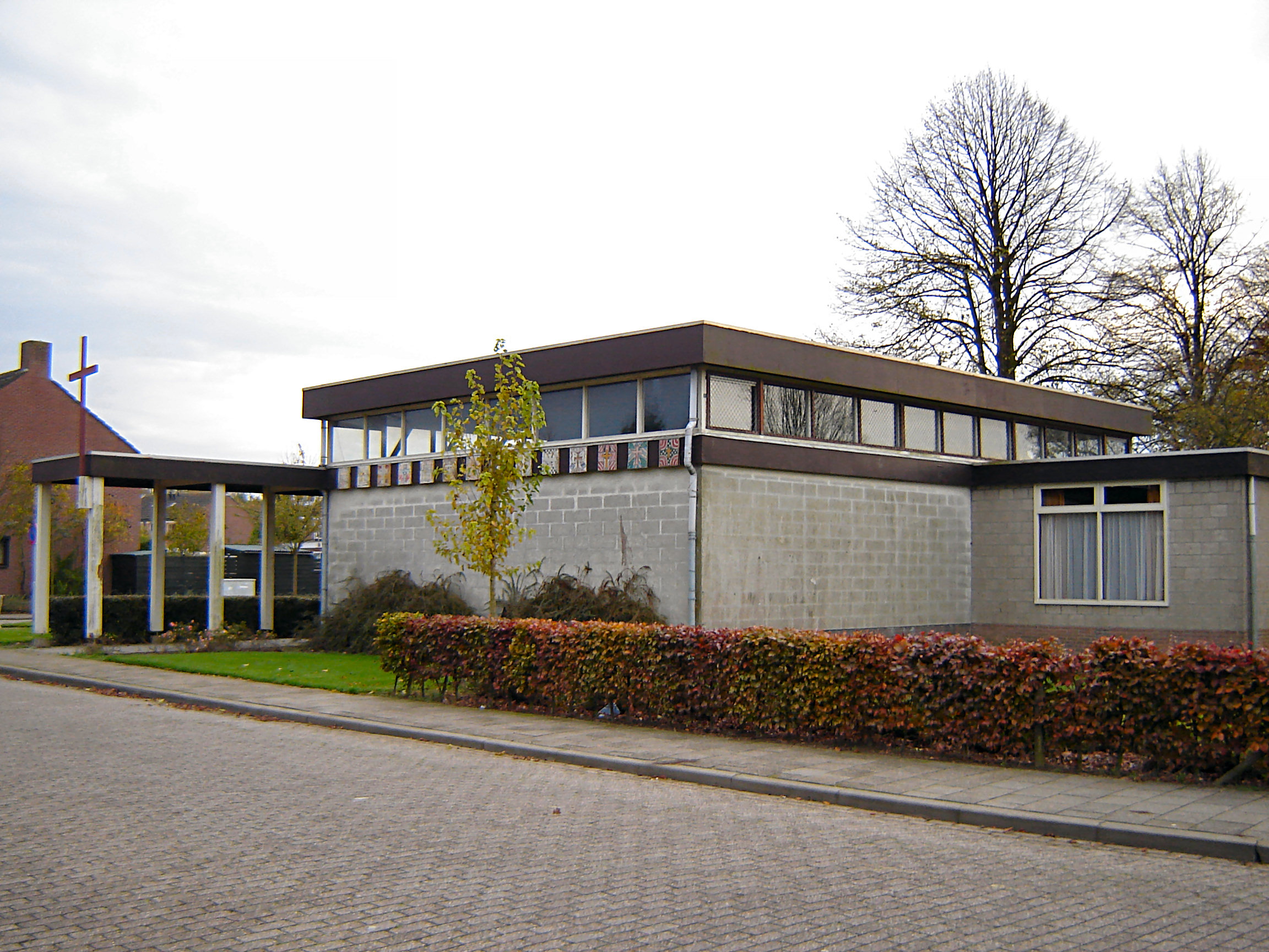 Roman catholic church of the Holy Cross in Hoek. Hoek, Terneuzen, Zeeland, the Netherlands